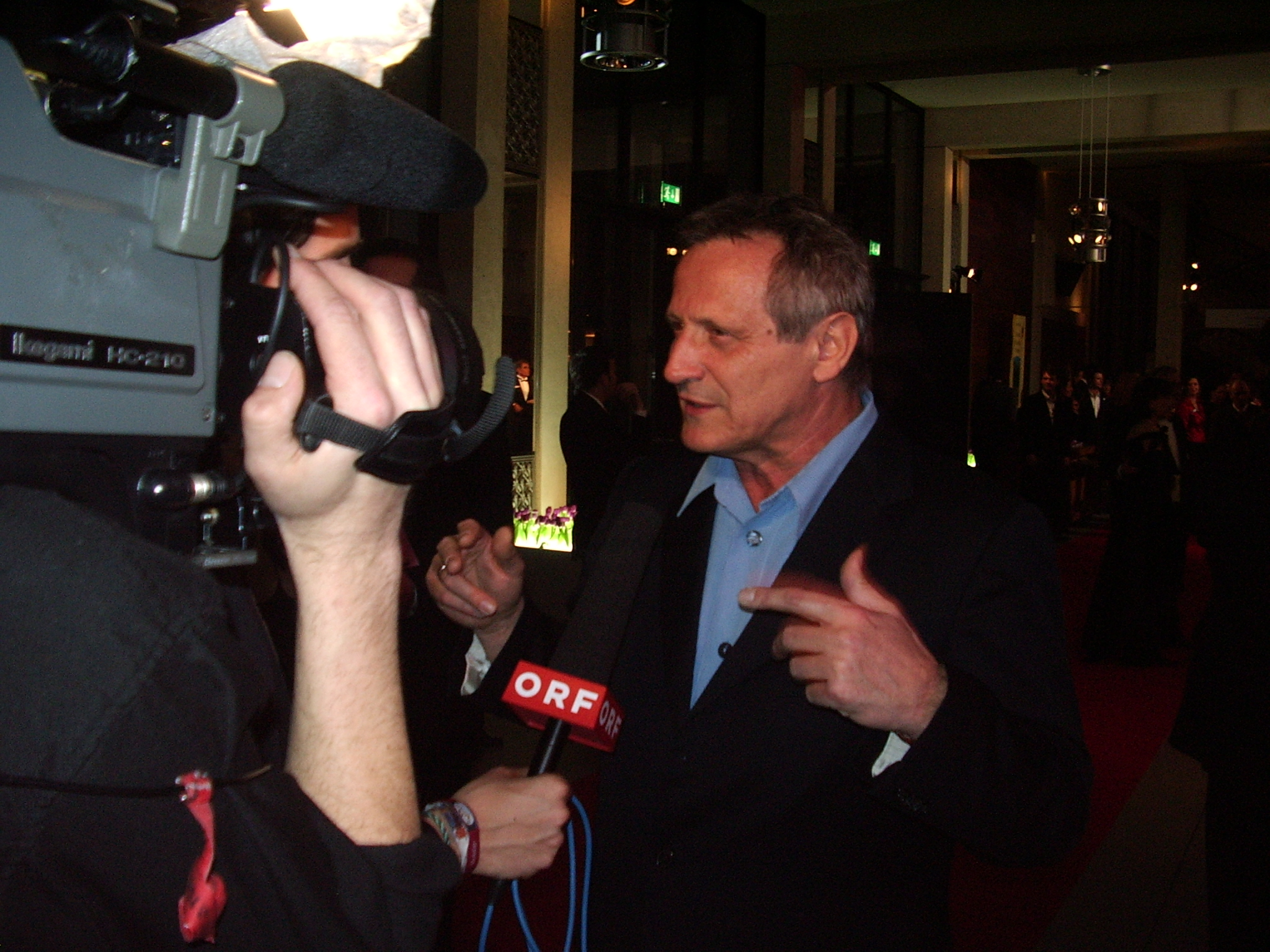 Konstantin Wecker Interview with ORF Austrain TV Füssen Germany, 2004